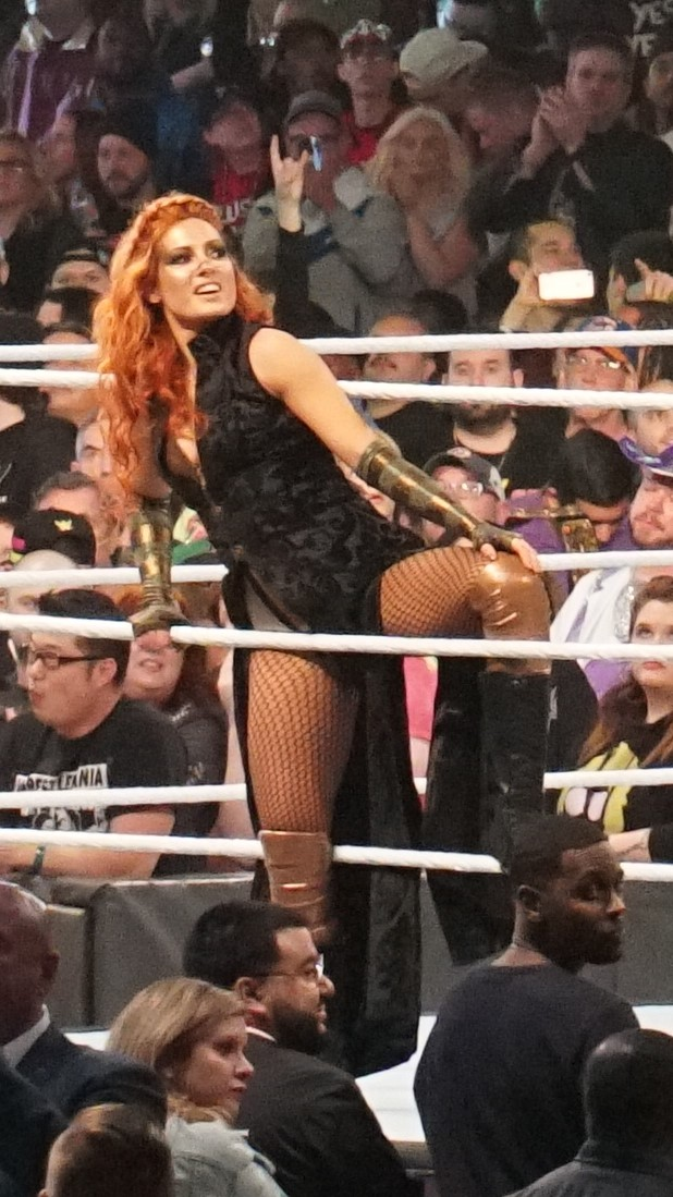 Becky Lynch at WrestleMania 34